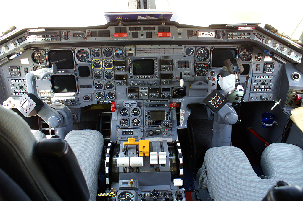 Cockpit of Embraer 120 HA-FAI